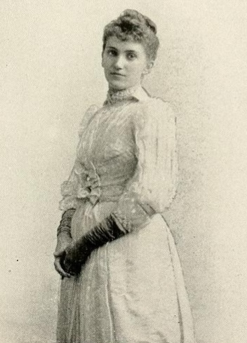 Photographic portrait of American artist and illustrator Maud Humphrey (1868-1940). From American Women: Fifteen Hundred Biographies with Over 1,400 Portraits, Frances E. Willard and Mary A. Livermore, editors. Mast, Crowell & Kirkpatrick, 1897 (revised edition from 1893), vol. 1, p. 403.